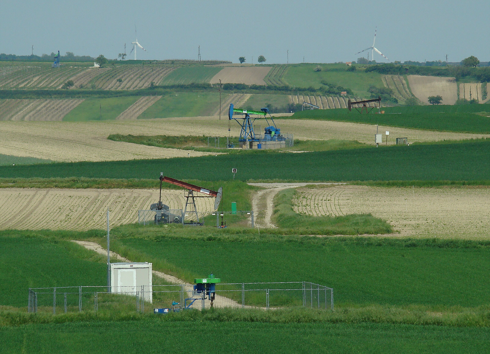 Pump jacks at the Matzen oil field in Lower Austria